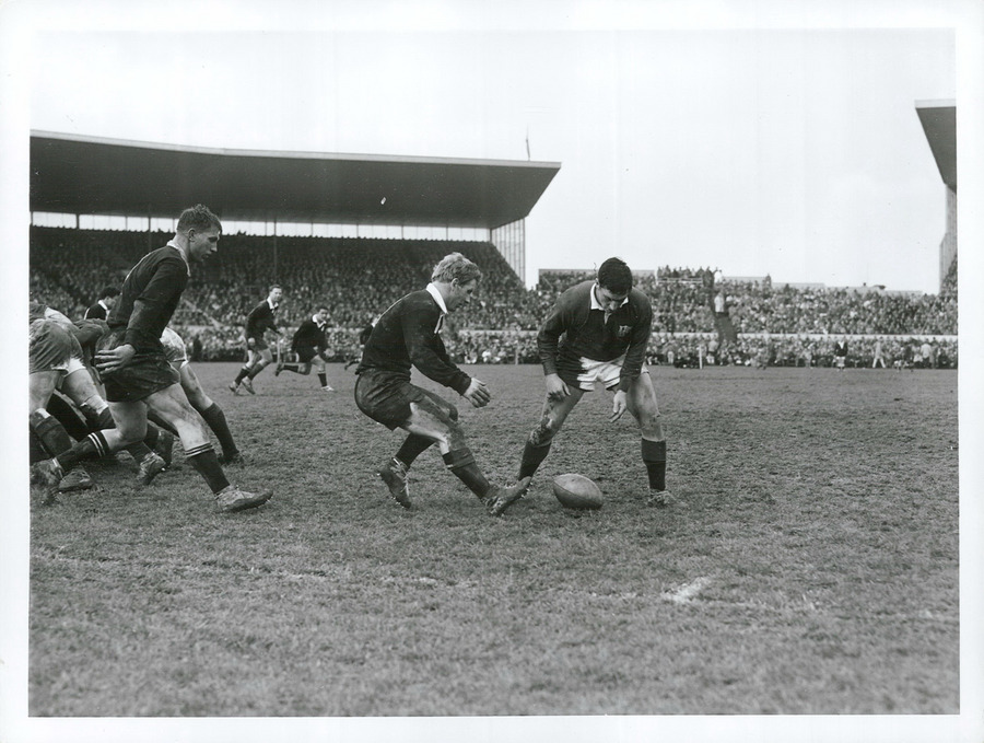 British Isles v New Zealand at Lancaster Park. Photographer Not identified. Archives Reference: AAQT 6539 W3537 Box 72 / A82318 This photo is from Archives New Zealand's National Publicity Studios collection. The National Publicity Studios was established in 1945, but its beginnings can be traced back to the establishment in 1924 of a Publicity Office - part of the Department of Internal Affairs. The emphasis of this Publicity Office was on films, photographs and booklets. The purpose of the National Publicity Studios was to provide advice to government departments and state agencies on the provision of photographic, art, and display services and in particular to assist in the production of publicity material aimed at conveying a favourable image of New Zealand. Material from Archives New Zealand